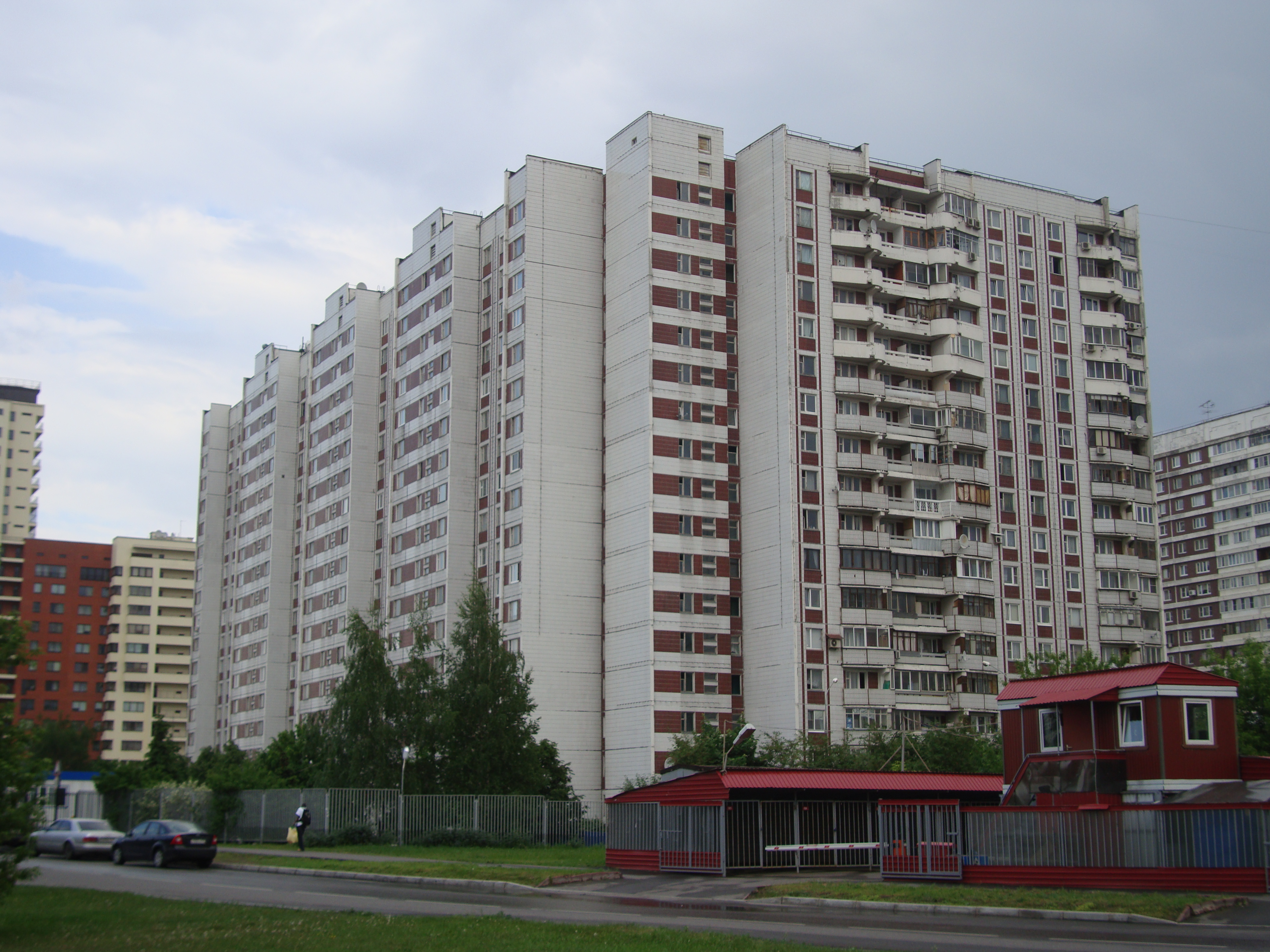 26/1, Rublyovkoe Chaussee, Moscow, Russia. Embassy of Costa Rica. Embassy of Dominican Republic. Embassy of Sierra Leone.